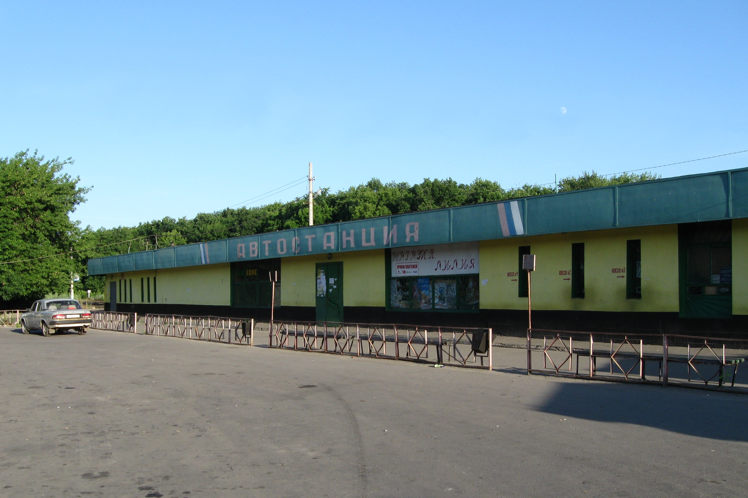 Old Kurchatov Bus & Train Station